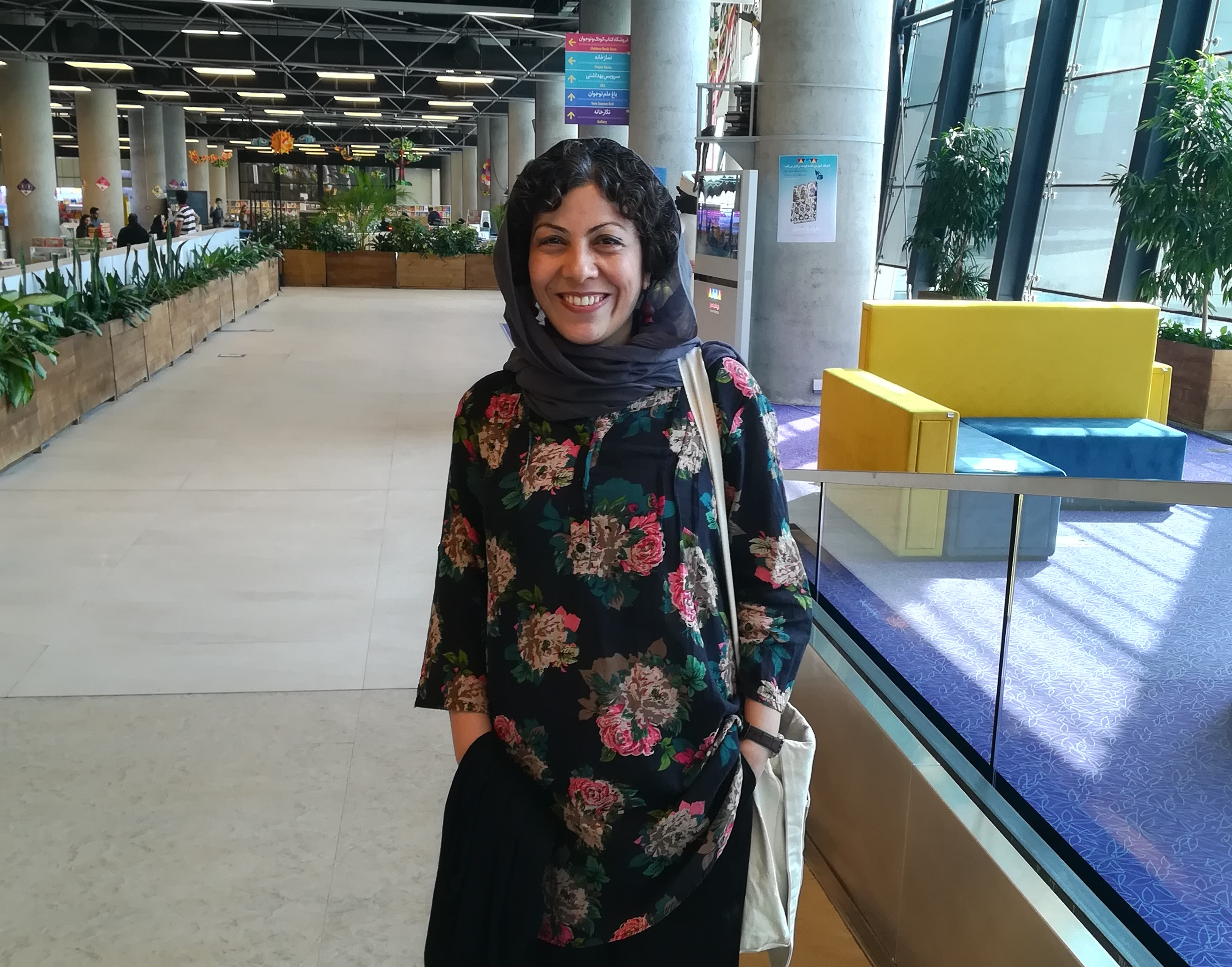 Habibeh Jafarian, Iranian biographer and essayist